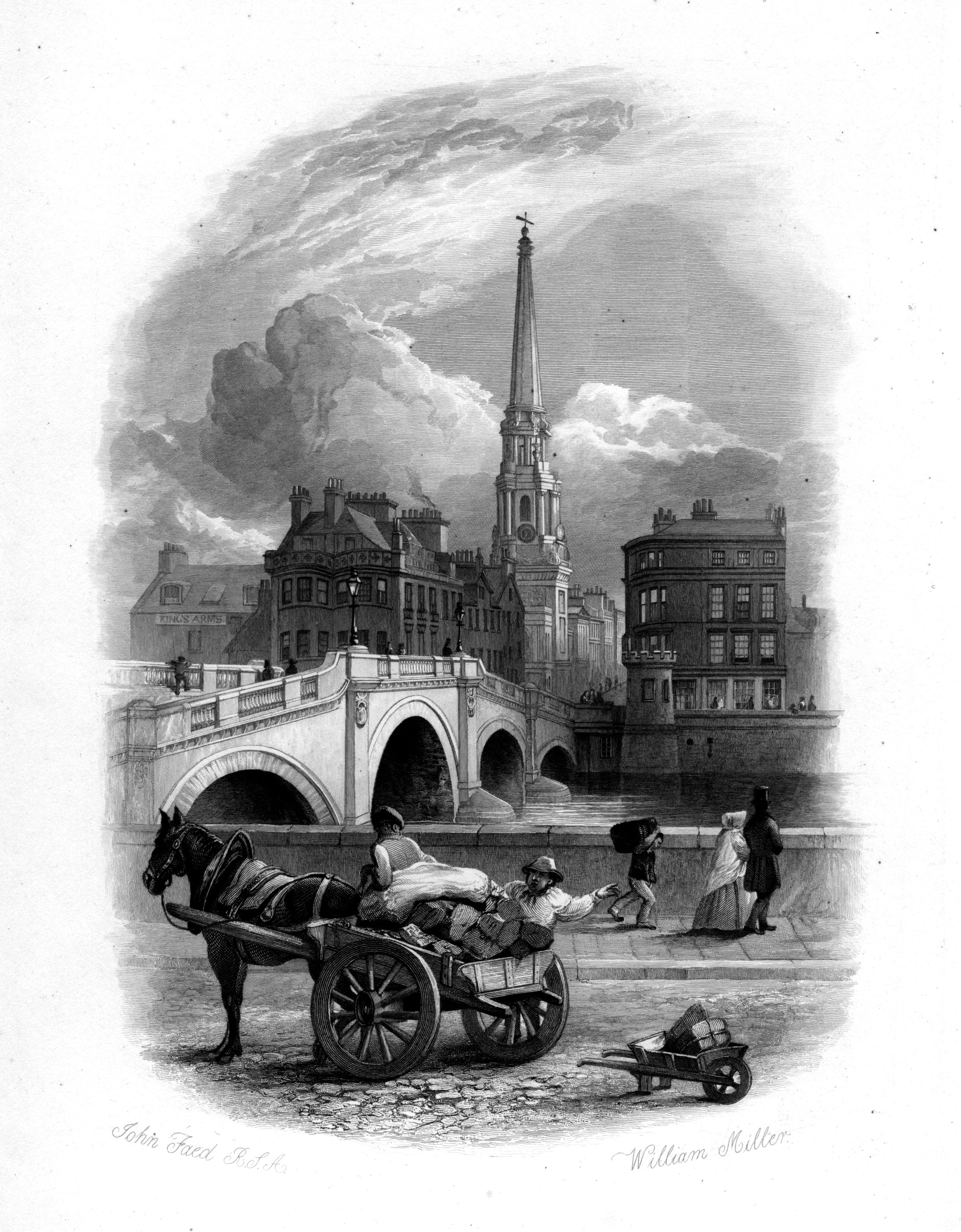 View of Ayr, vignette title engraving by William Miller after John Faed, published in Tam O'Shanter, Illustrated with six large engravings by John Faed RSA. Royal Association for the Promotion of the Fine Arts in Scotland, 1855